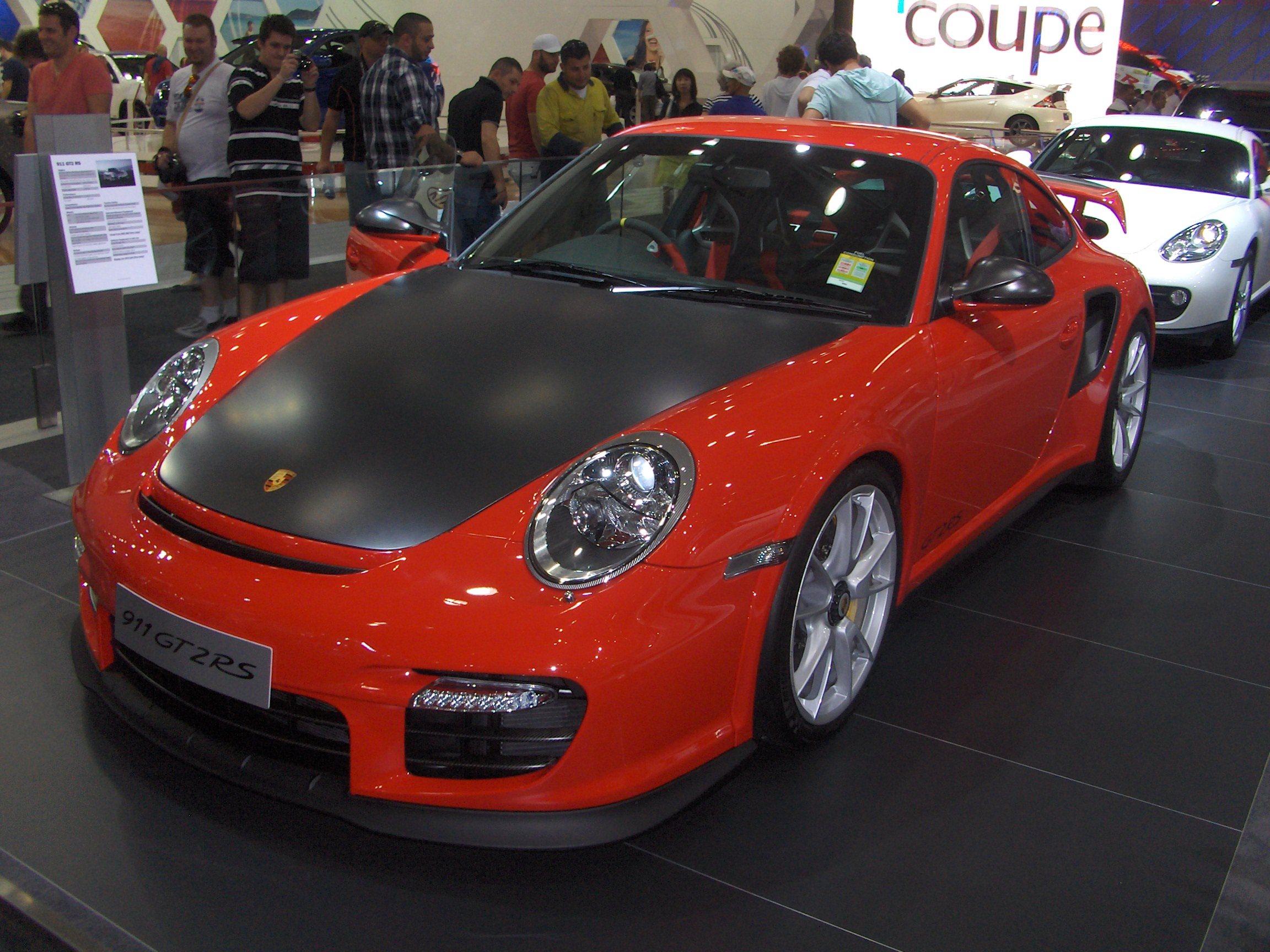 A Porsche 911 GT2 RS at the 2010 AIMS.